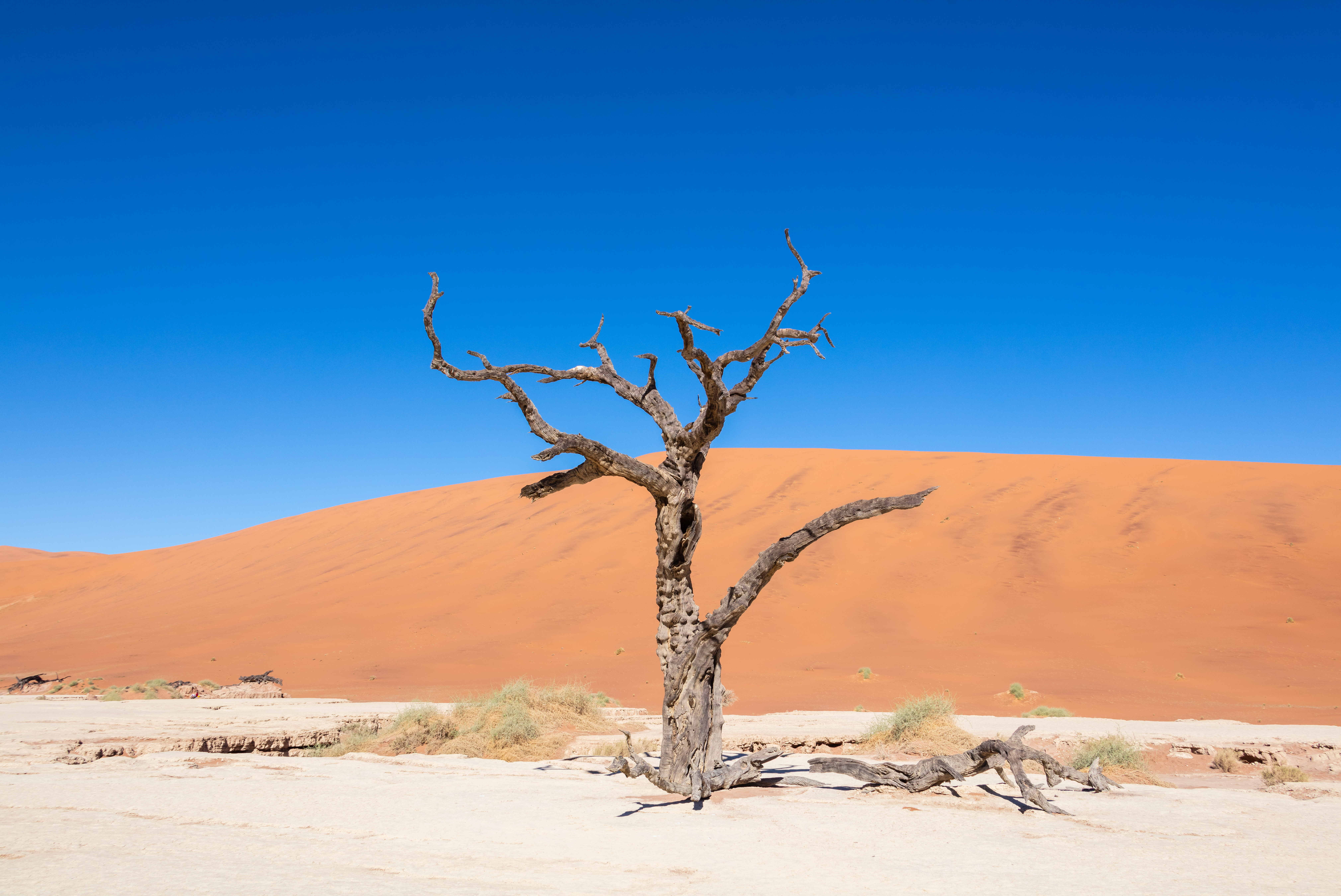 Dead camel thorn (Vachellia erioloba), Deadvlei, Namib-Naukluft Park, Namibia.